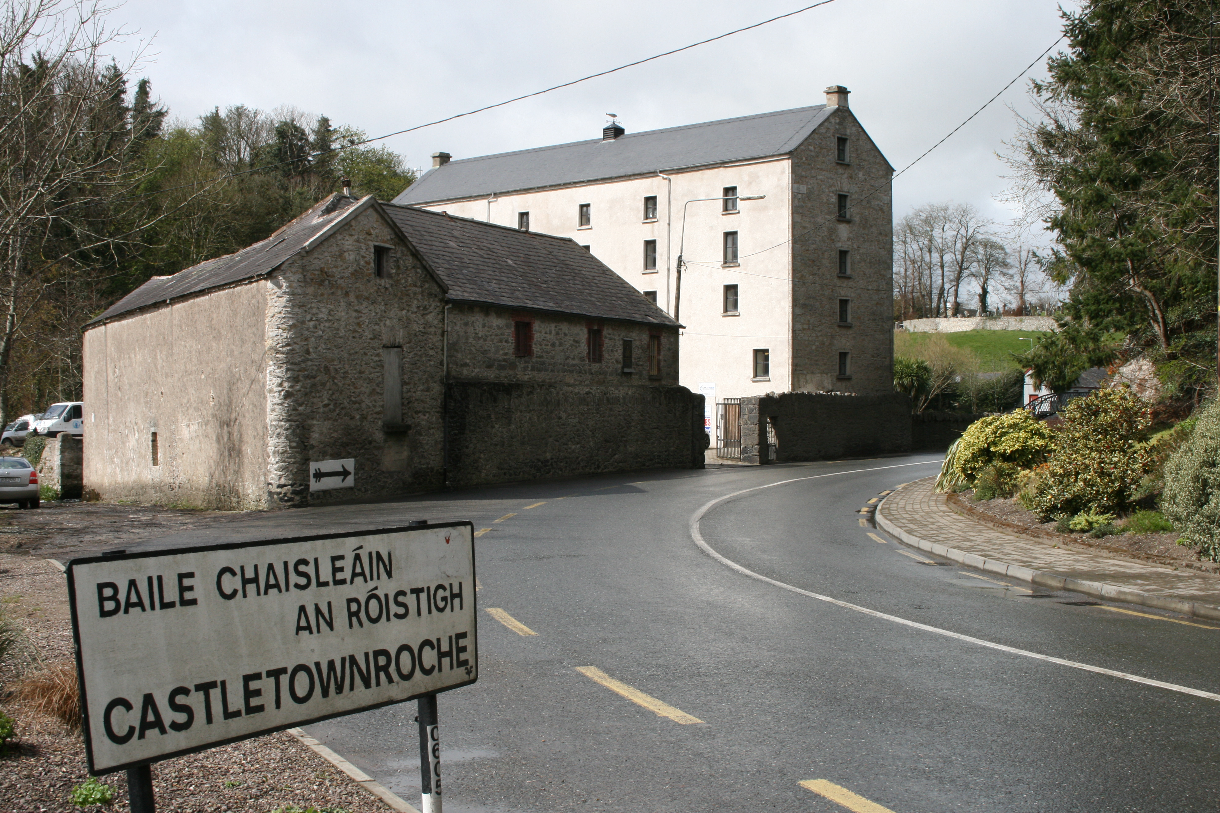 The N72 road approaching Castletownroche, County Cork, Ireland